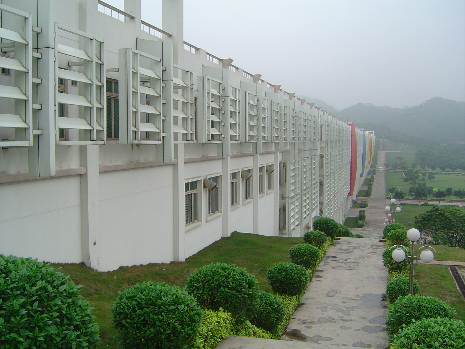 the teaching building in the Zhuhai Campus of Sun Yat-sen University (中山大学) in Zhuhai, PR China.